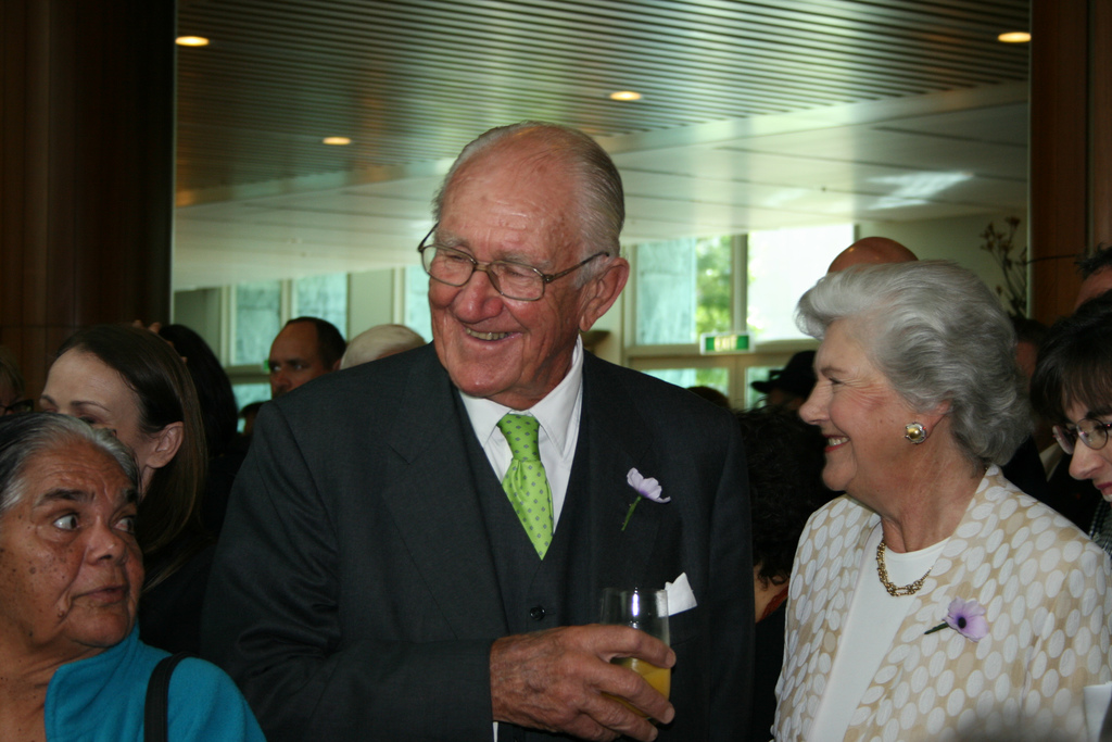 Malcolm Fraser at the apology to the Stolen Generations